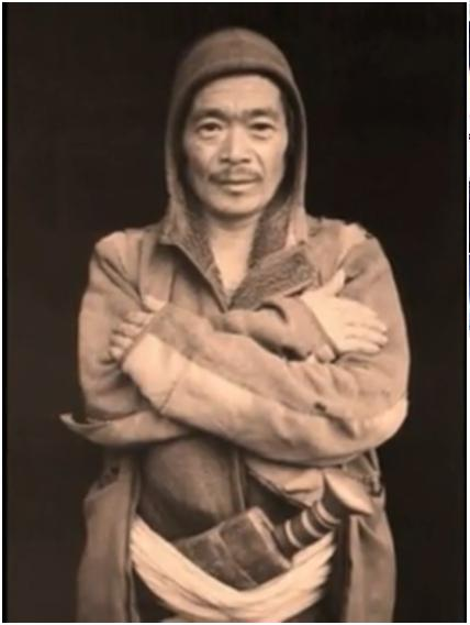 Kirati tribe man with kukri